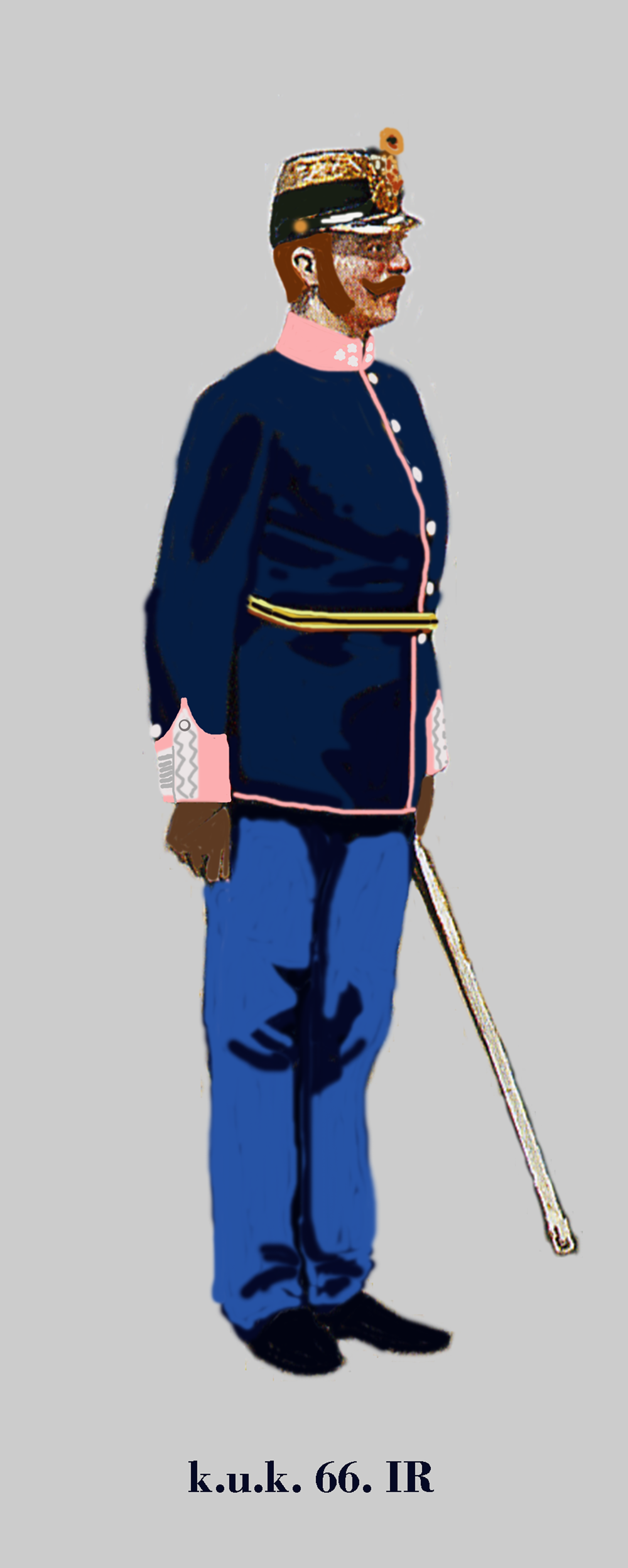 Captain of the Austria-Hungarian (k.u.k.). 66th hungarian Infantry Regiment in Parade dress 1914